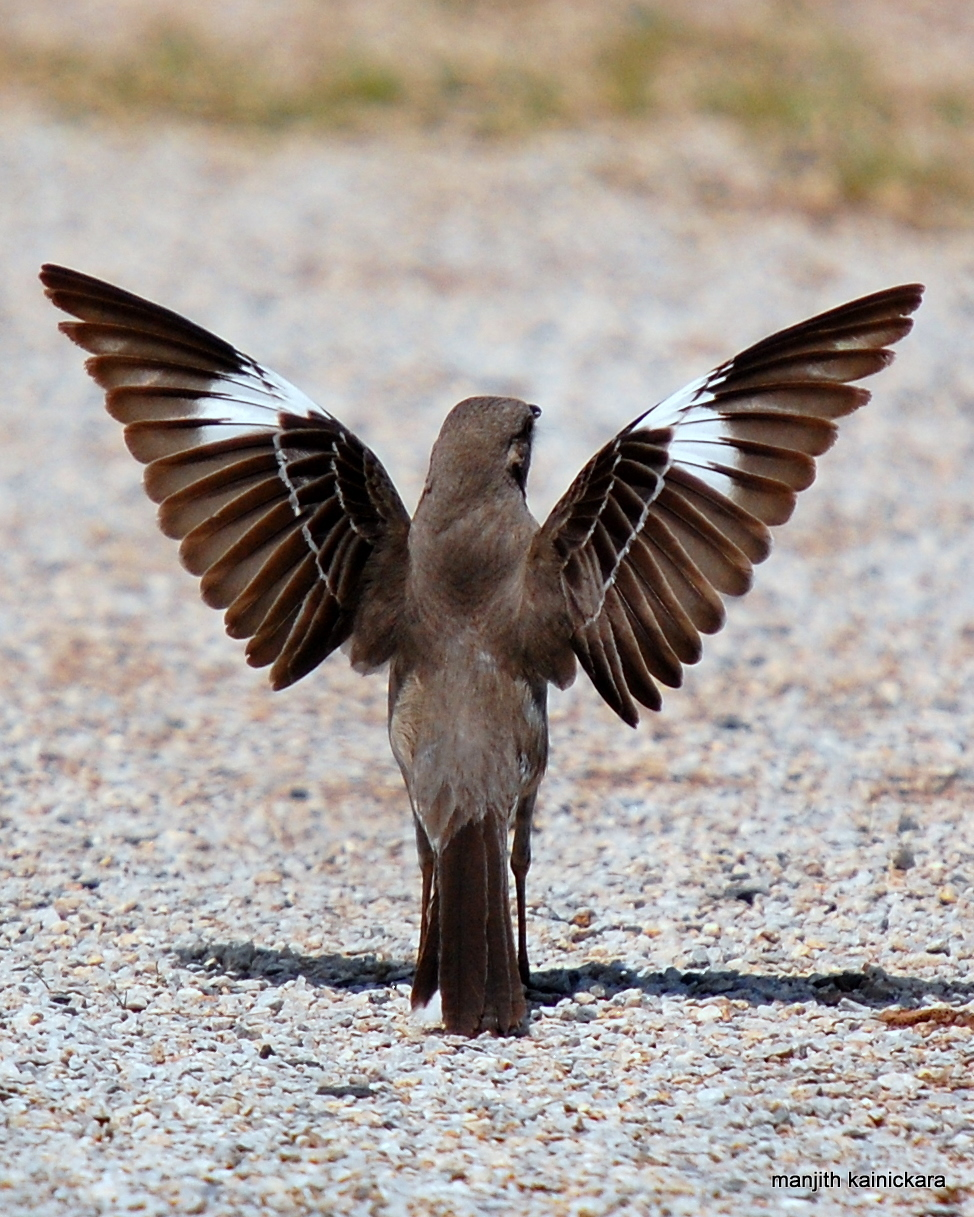 A Northern Mockingbird spreads its wings. Picture taken at a city park in Lansdale, Pennylvania.